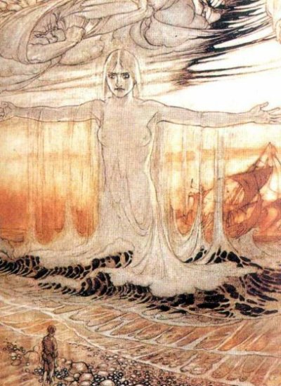 Shipwrecked Man and the Sea